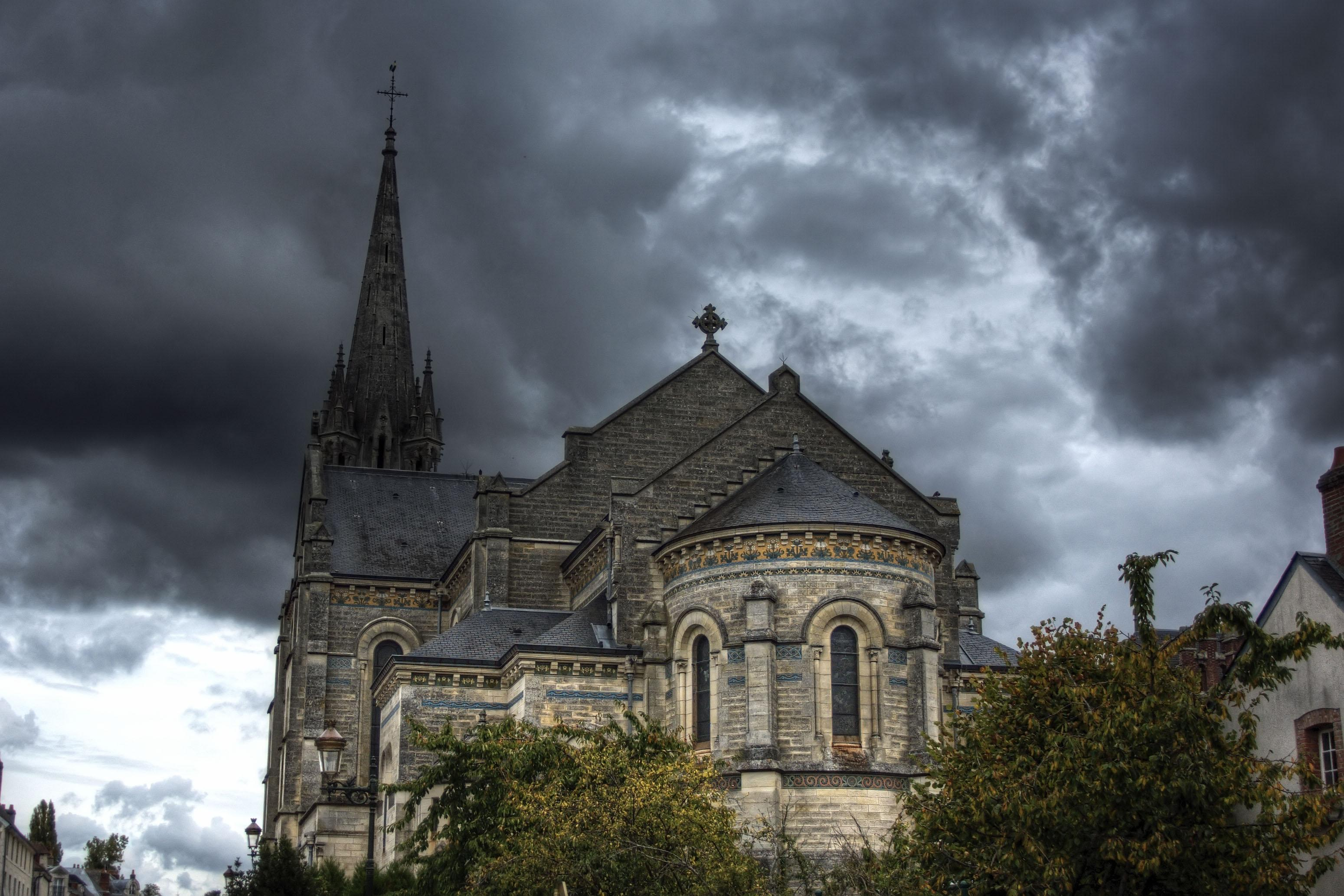 église de briare